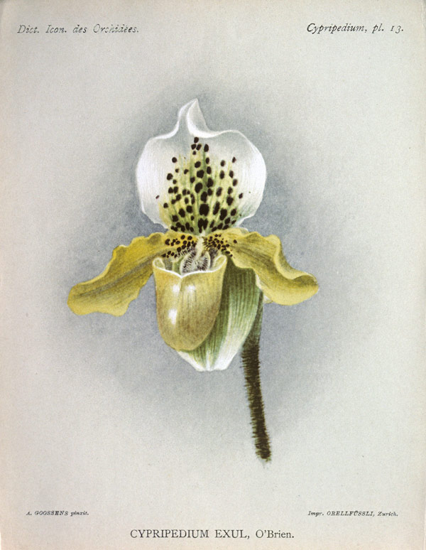 Paphiopedilum exul